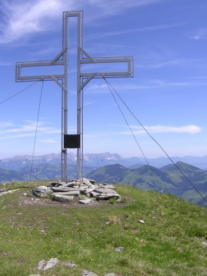 The summit of the Steinbergstein (2215 m) in the Kitzbühler Alps, Austria.